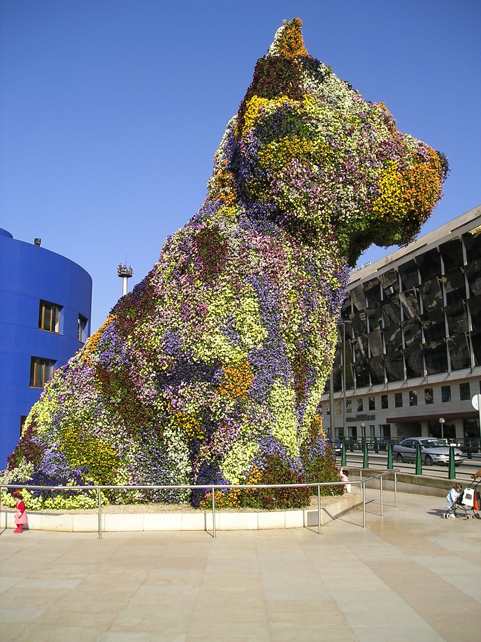 Jeff Koons' sculpture Puppy, a 12 metres high puppy consisting of flowers was created by the US-American artist Jeff Koons. He built this sculpture for the Documenta in Kassel 1992. Nowadays its place is permanently at the front of the Guggenheim museum in Bilbao.[1]